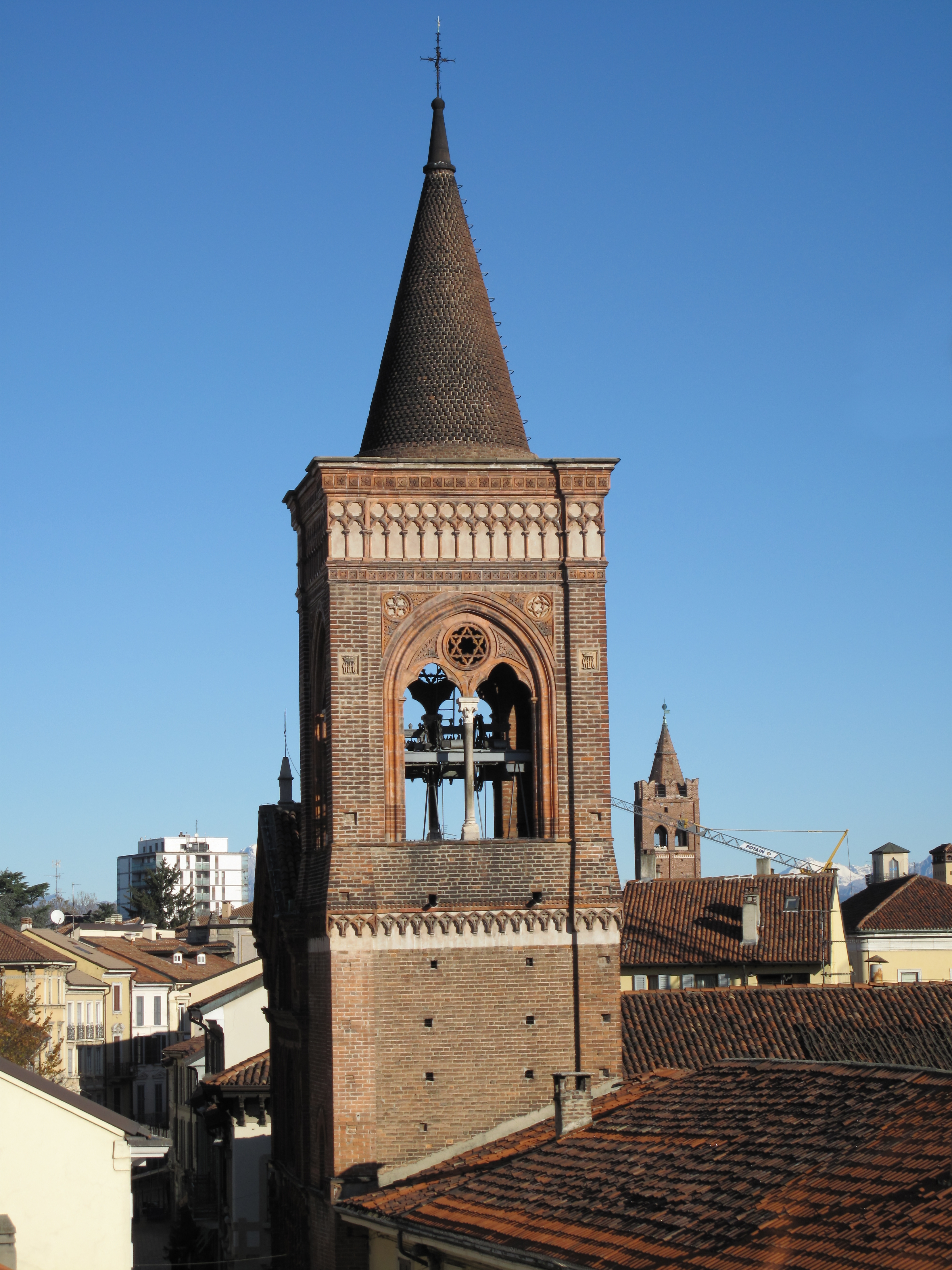 Bell Tower of Santa Maria in Strada Church (Monza - ITALY)